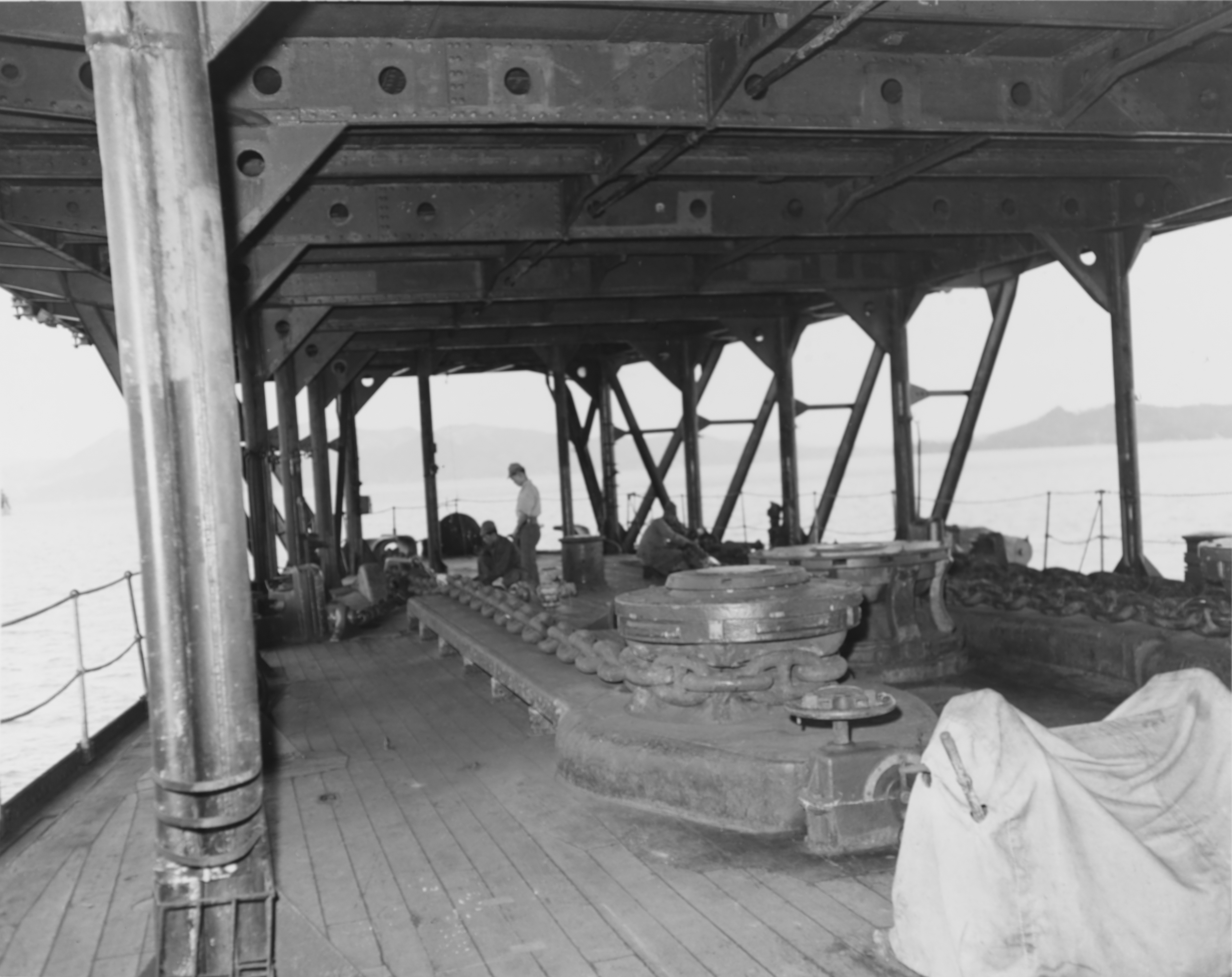 A view of the underside of the flightdeck of the Imperial Japanese Navy aircraft carrier Hōshō, looking from the forecastle forward. Kure, Japan.